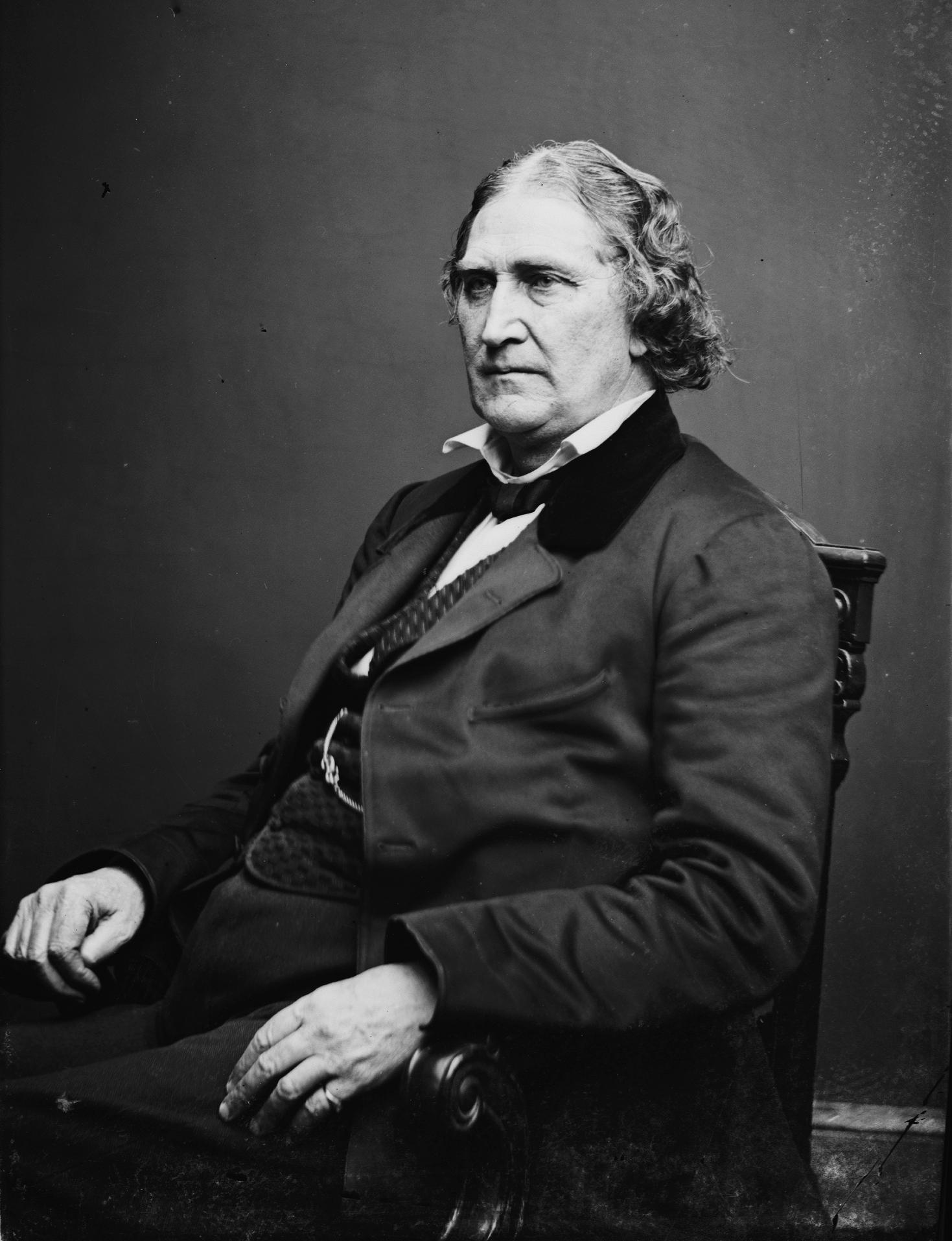 James A. Bayard, Jr.. Library of Congress description: "Bayard, Hon. Jas. A., Senator of Del."